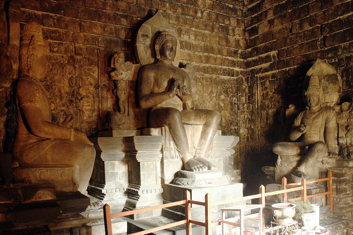 The three statues inside the ninth century Mendut buddhist temple, Magelang, Central Java, Indonesia, at the center is 3 metres tall statue of Dhyani Buddha Vairocana, at the left is Boddhisatva Avalokitesvara, at the right is Boddhisatva Vajrapani